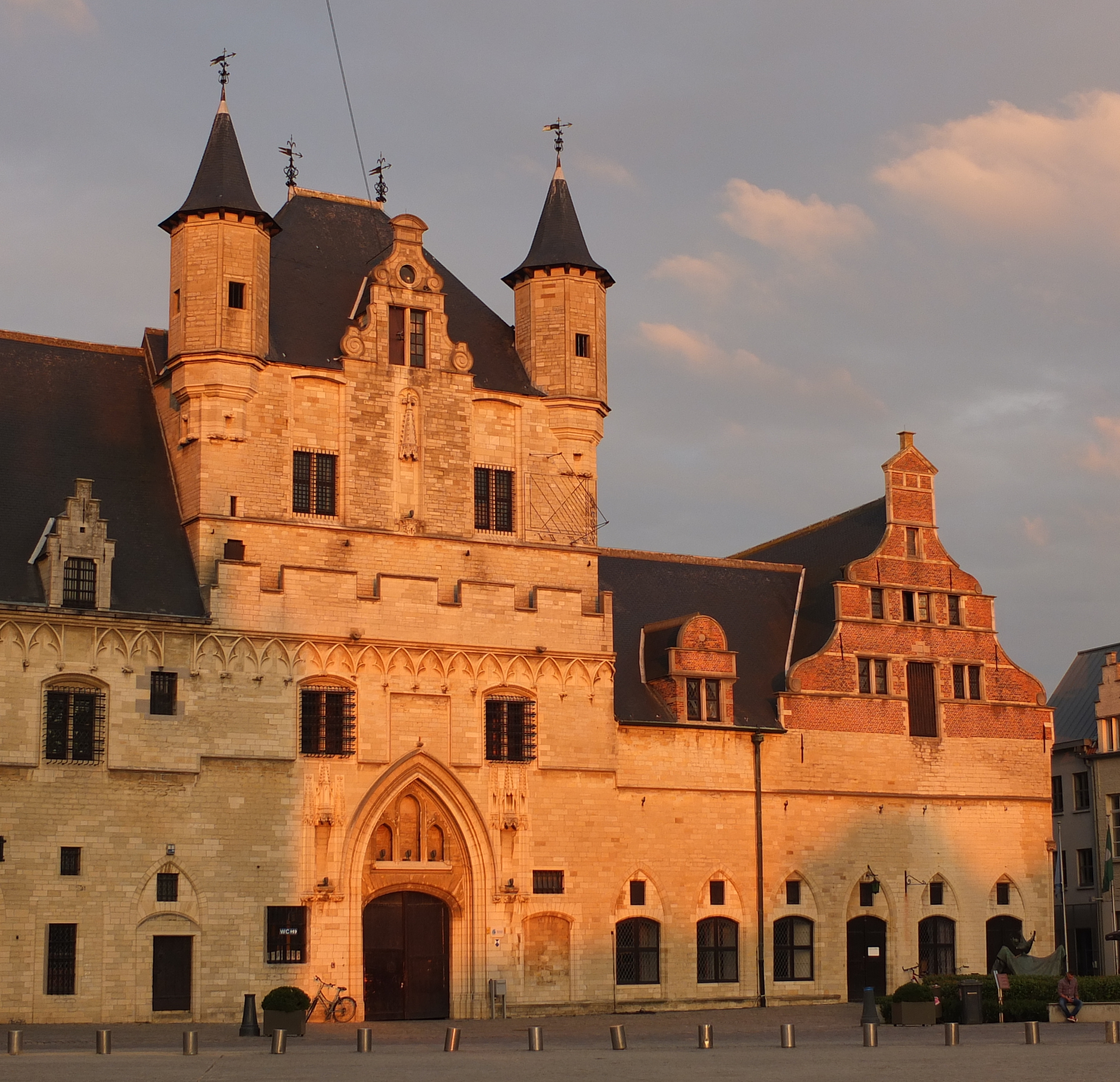 Mechelen City Hall, Flanders, Belgium.